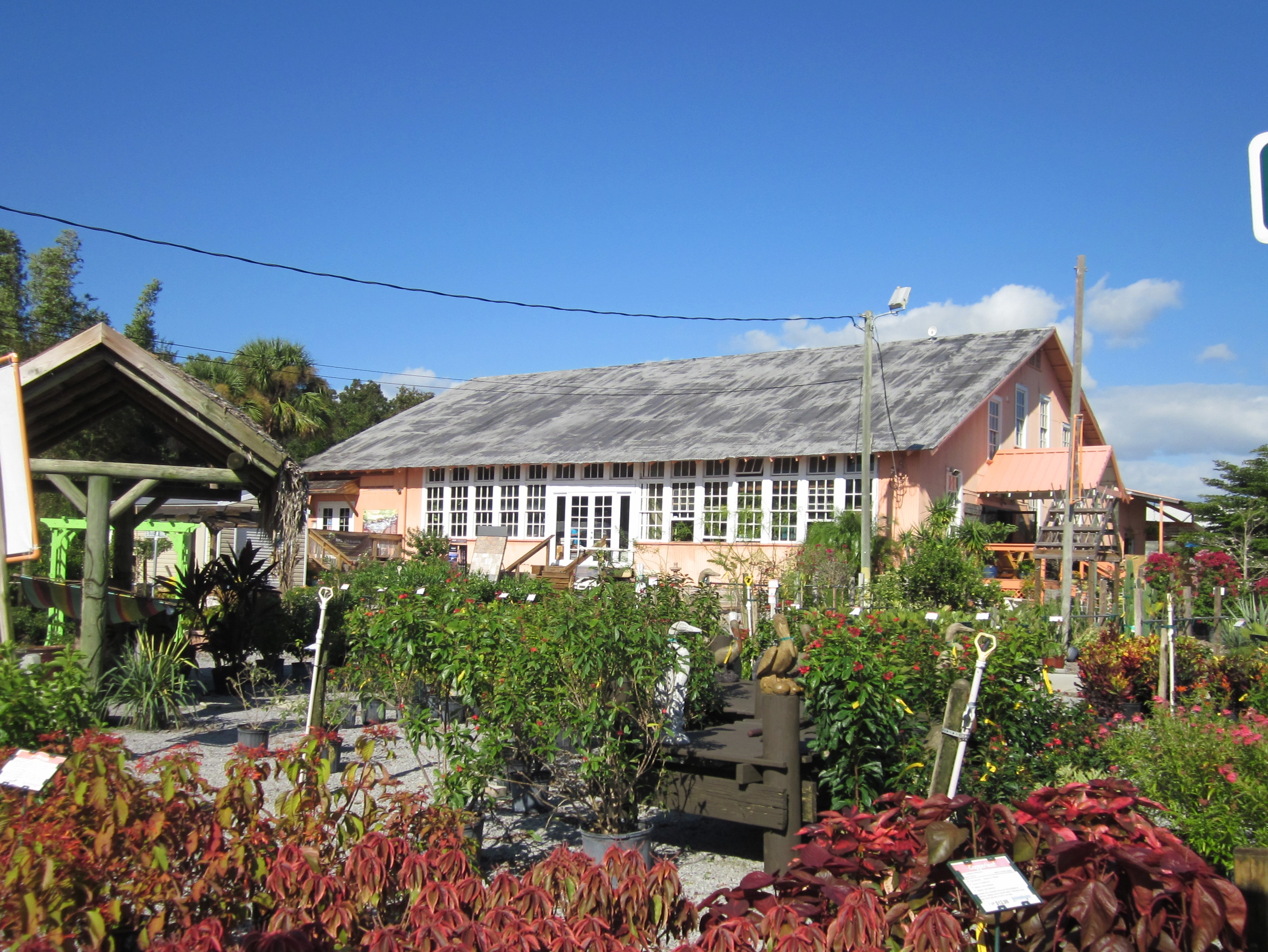 Outdoor plants and building with home accent items at Rockledge Gardens in Rockledge, FL